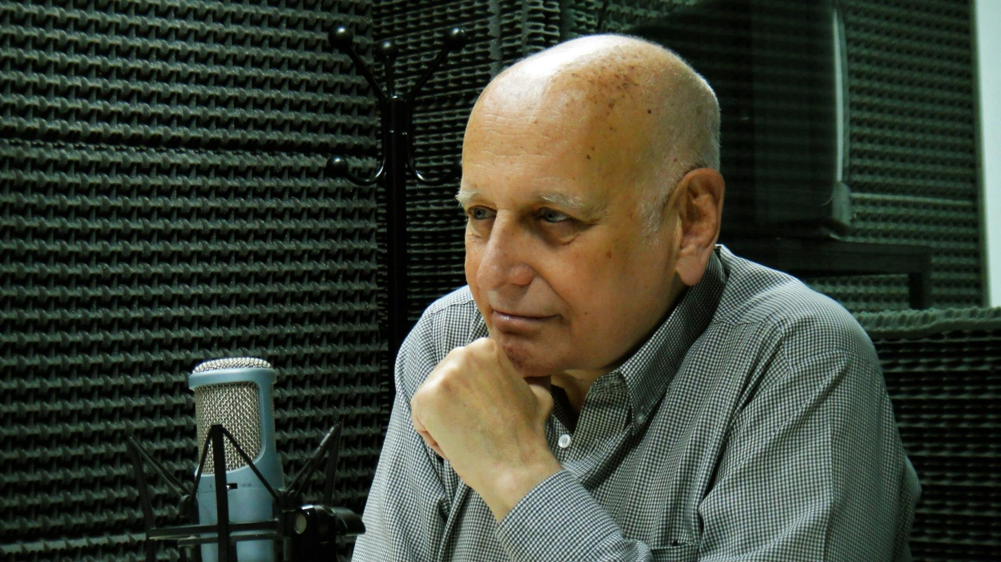 Film director Edgardo Cozarinsky in Buenos Aires, Argentina. 31 March 2015. Picture by Ministerio de Cultura de la Nacion.